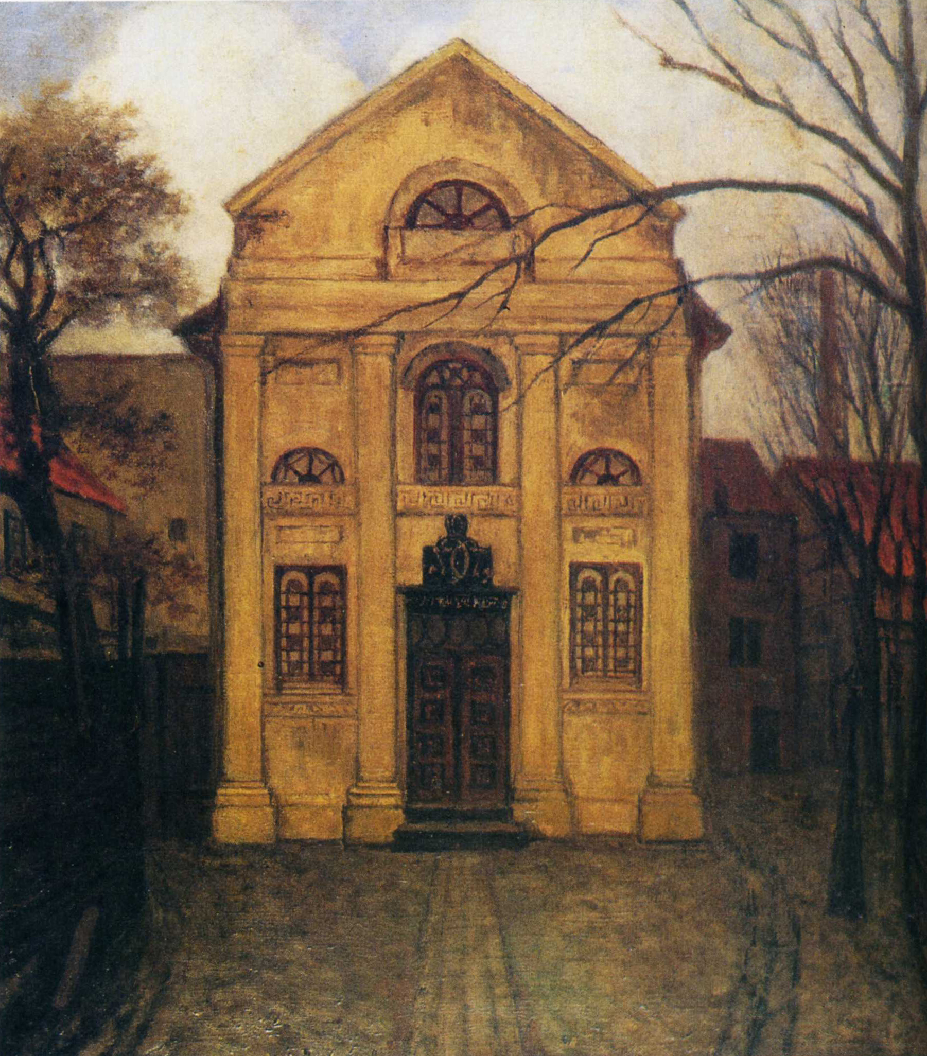 The Portuguese synagogue Neveh Shalom in Altona, dedicated 1771, razed in 1940.